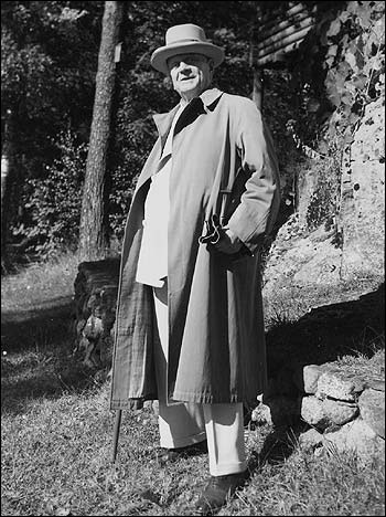 Jean Sibelius (1865 - 1957) at Ainola in the 1930s.